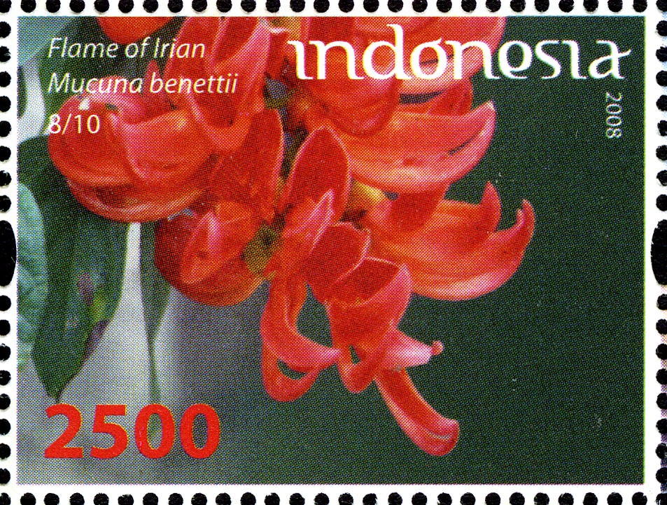 Stamps of Indonesia